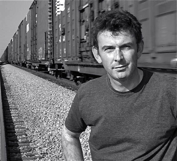 Photograph of composer Matthew King by the railroad tracks at Grable, Indiana, USA